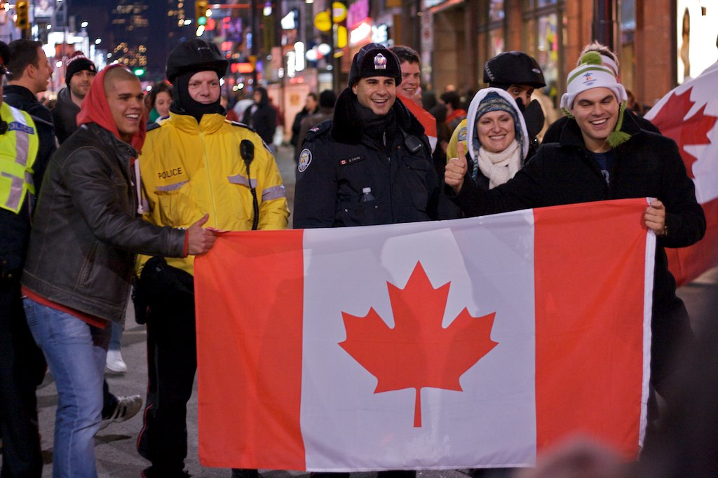 Police officers and hockey fans in Toronto, Canada celebrate the gold medal won by Canada's ice hockey team at the 2010 Winter Olympics in Vancouver.